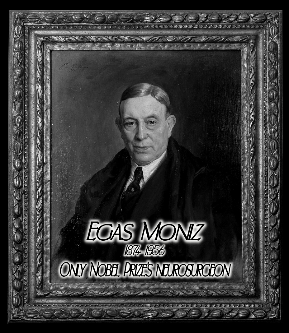 Antonio Egas Moniz, physician, and neurosurgeon, discoverer of angiography. In 1927 he performed the first cerebral arteriography, allowing the discovery of brain tumors and the discovery and treatment of an aneurysm and arteriovenous malformation of the brain. The developer of pre-frontal leukotomy. Winner of the 1949 Nobel Prize in Medicine pt= (Antonio Egas Moniz , médico e neurocirurgião, descobridor da angiografia. Em 1927 realizou a primeira arteriografia cerebral, permitindo a descoberta dos tumores cerebrais e a descoberta e tratamento do aneurisma e malformação arteriovenosa do encéfalo. Desenvolvedor da leucotomia pré-frontal. Ganhador do prêmio nobel de medicina de 1949)